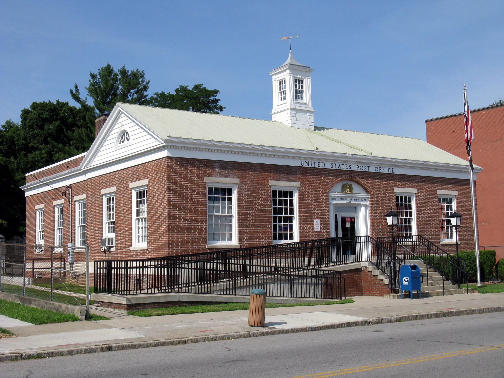 The post office in Saint Johnsville, New York was built in 1937 and was listed on the National Register of Historic places in 1989.